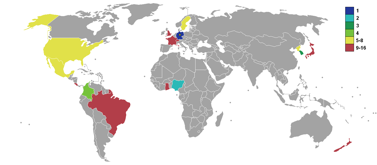 The final rankings of the FIFA U-20 Womens World Cup teams, showing winner = dark blue (Sieger = dunkelblau) runner-up = light blue (Zweiter = hellblau) third = dark green (Dritter = dunkelgrün) fourth = light green (Vierter = hellgrün) quarterfinals = yellow (Viertelfinale = gelb) group stage = red (Vorrunde = rot) yellow square = host nation (Germany) (Gelbes Quadrat = Gastgeber (Deutschland))